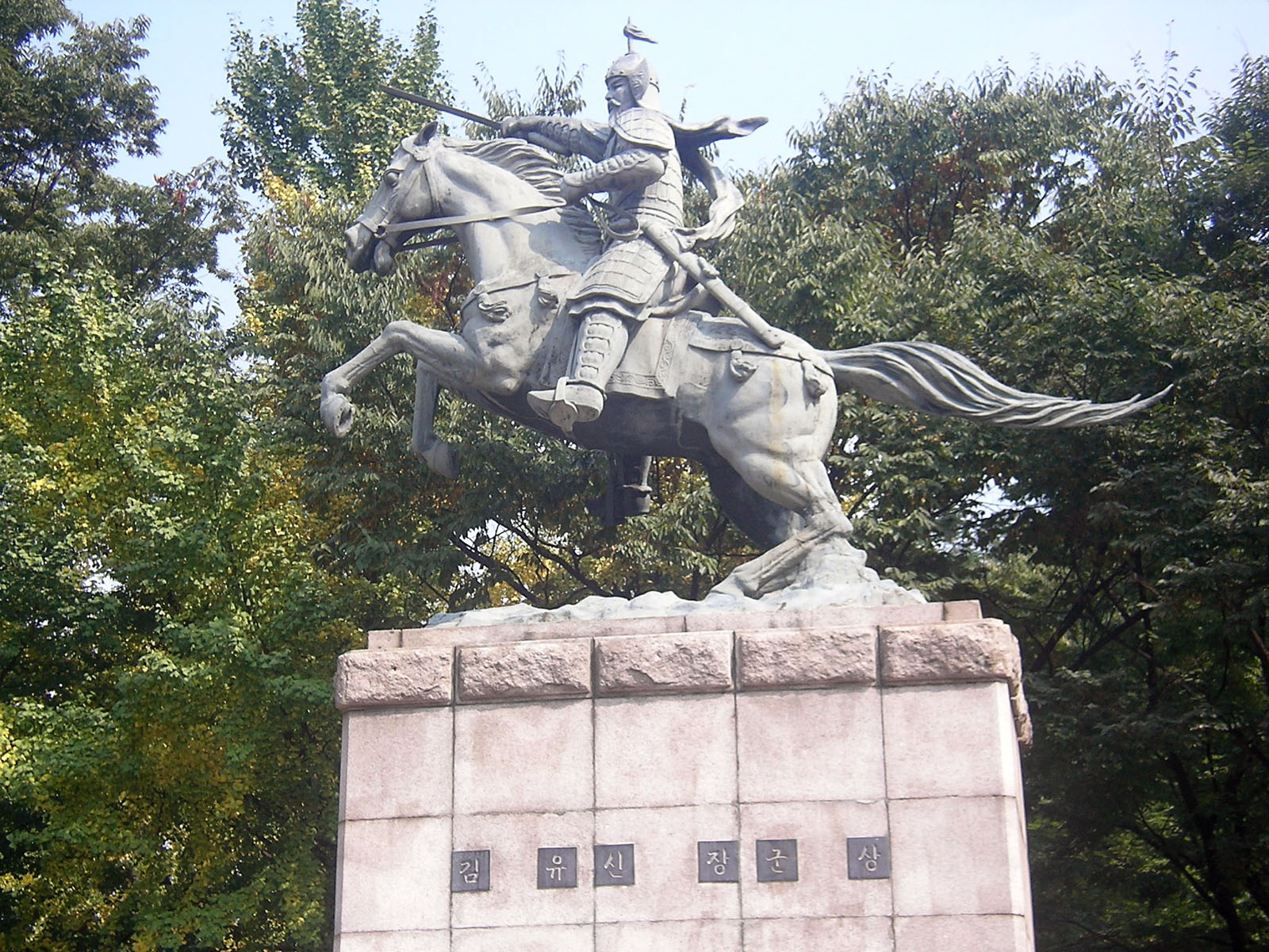 Statue of Kim Yushin in Mount Nam (Namsan), Seoul, South Korea.